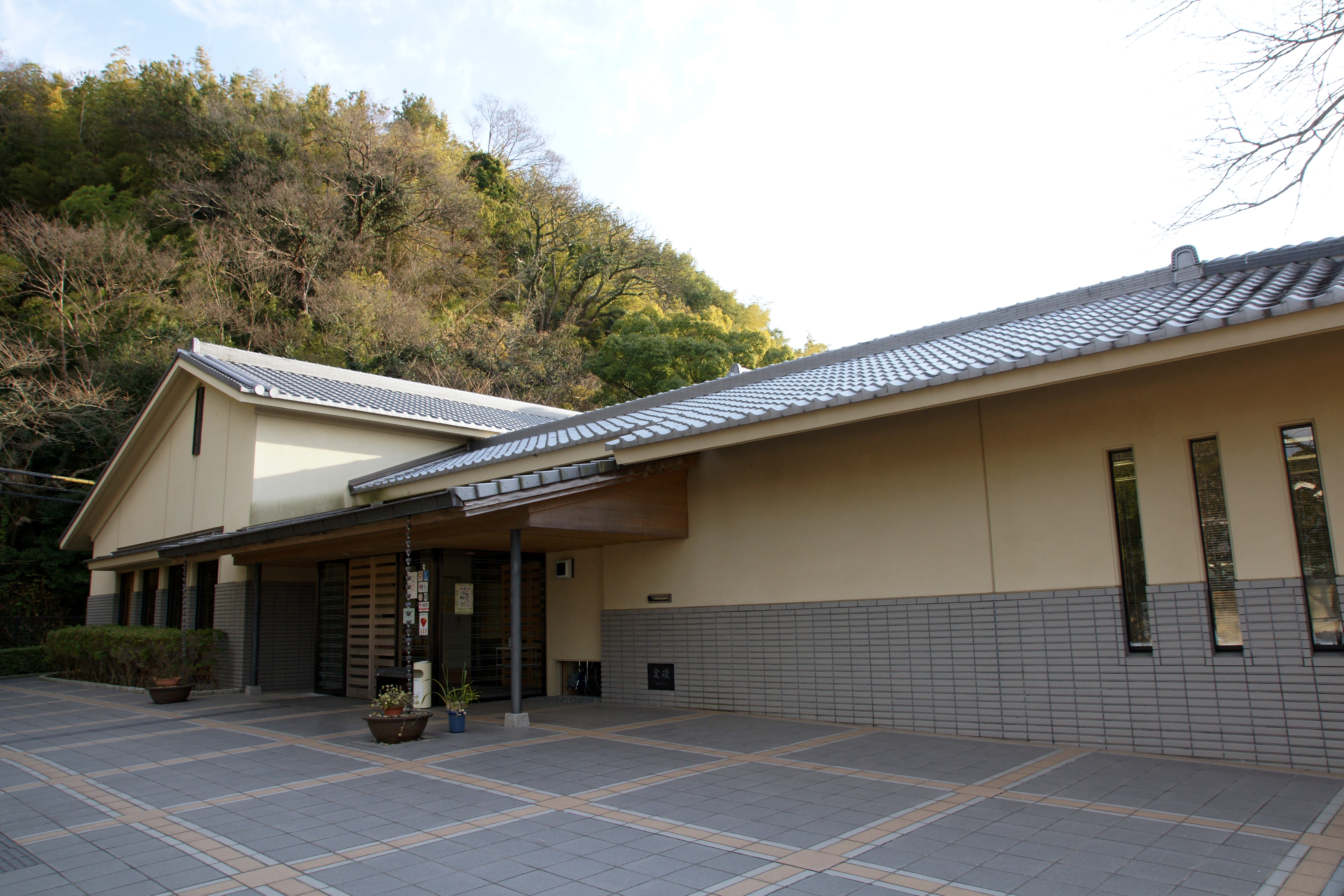 Ako City Tabuchi Museum of Art, Akō, Hyogo prefecture, Japan